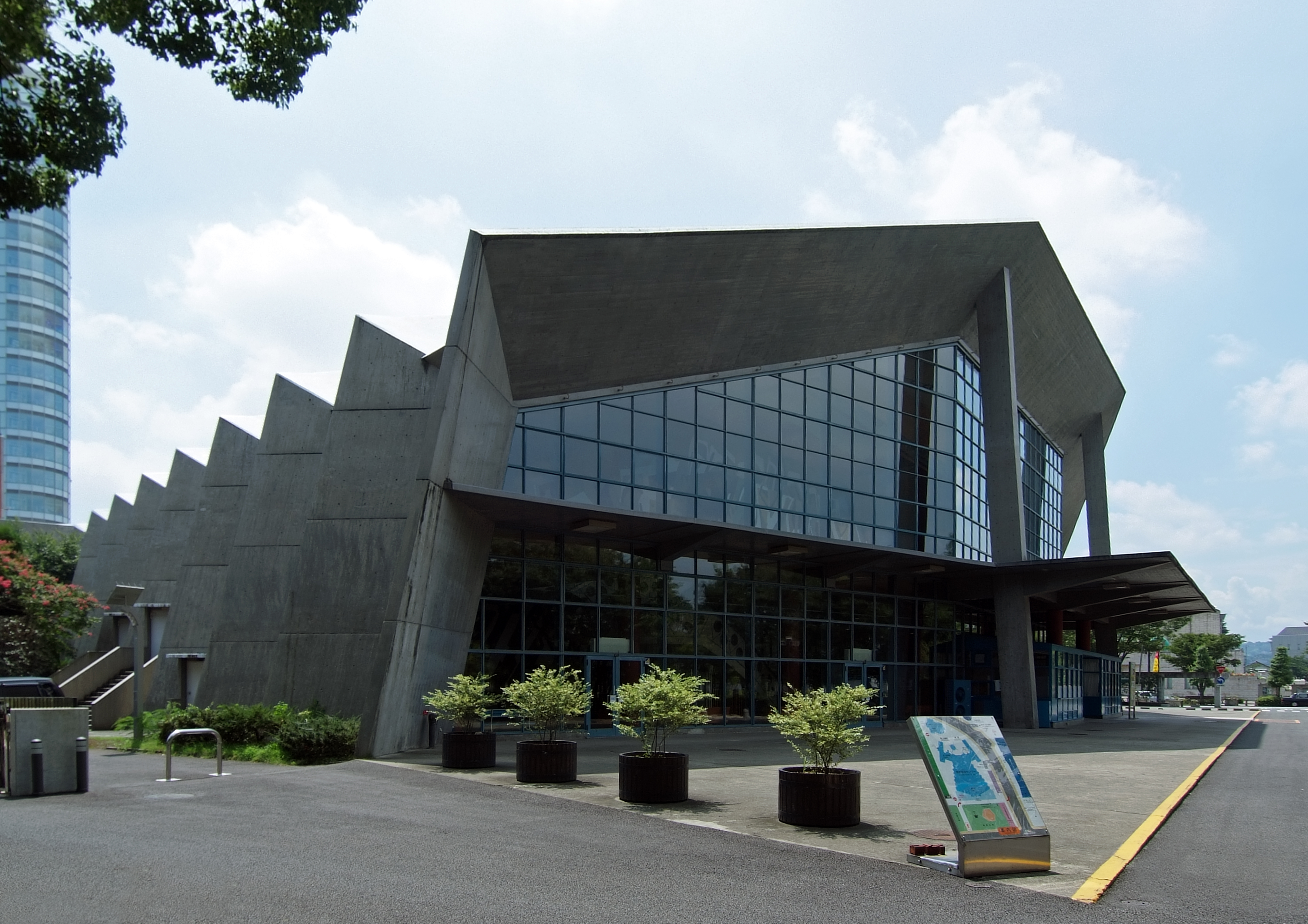 群馬音楽センター / Gunma music center Architect アントニン・レーモンド / Antonin Raymond Location 群馬県高崎市 / Takasaki, Gunma Year 1961年